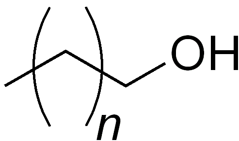 generic chemical structure of a fatty alcohol